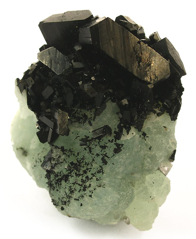 Babingtonite, Prehnite Locality: Hongquizhen Quarry, Meigu County, Liangshan Autonomous Prefecture, Sichuan Province, China (Locality at ) Size: miniature, 4.8 x 4.2 x 2.8 cm Babingtonite on Prehnite A fine miniature. Botryoidal, green prehnite contrasts nicely with tabular, doubly terminated crystals of lustrous, black babingtonite, to 2.4 cm across. The babingtonite crystals occur in a cluster at the apex of a knoll of prehnite. Lustre on these crystals is high, and the faces are all sharp and unetched or discolored as with some babingtonite from this locality. These remarkable specimens come out of a very small, previously insignificant quarry that, according to MINDAT, is simply worked by the local farmers.